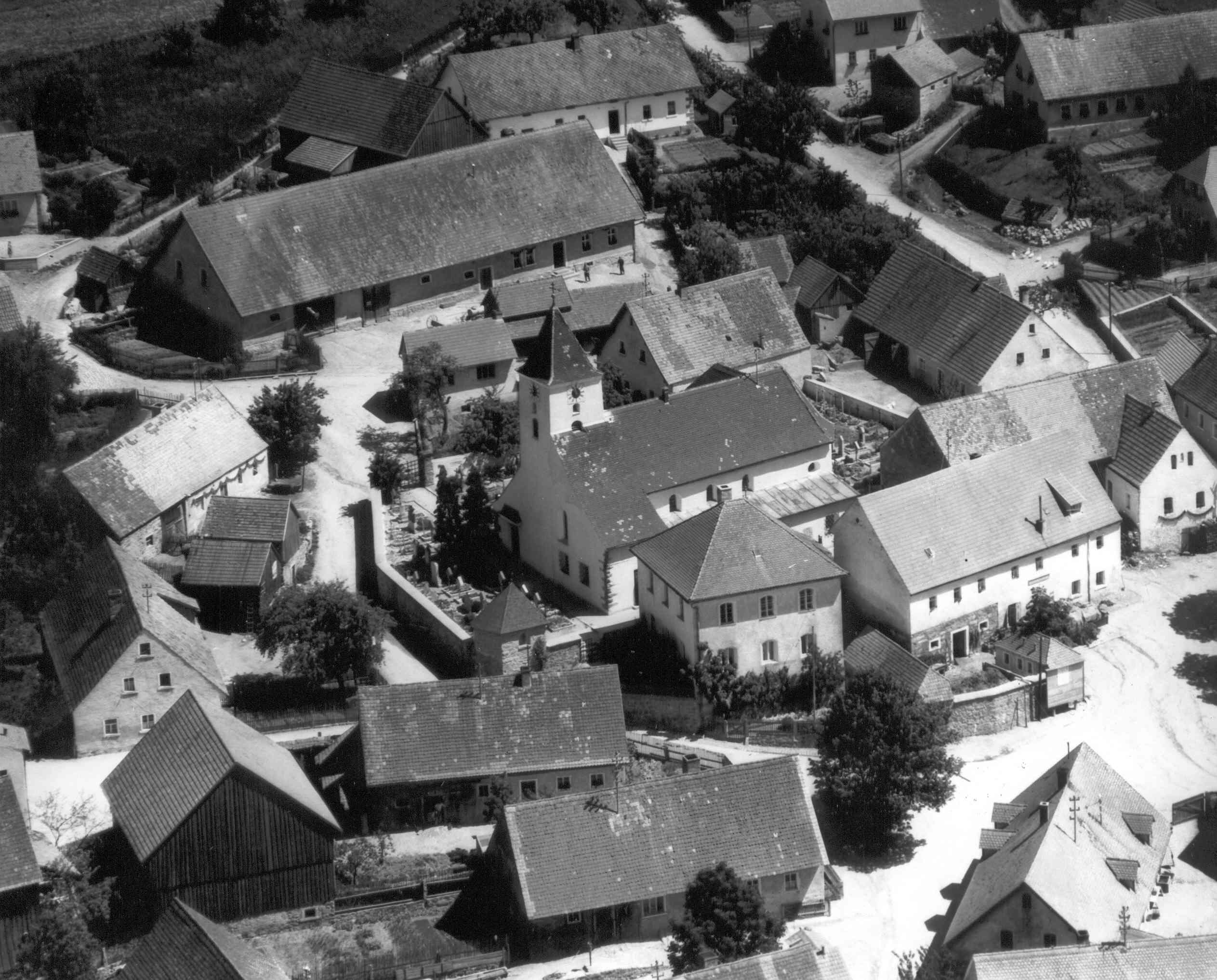 The village Gleiritsch in the year 1959.